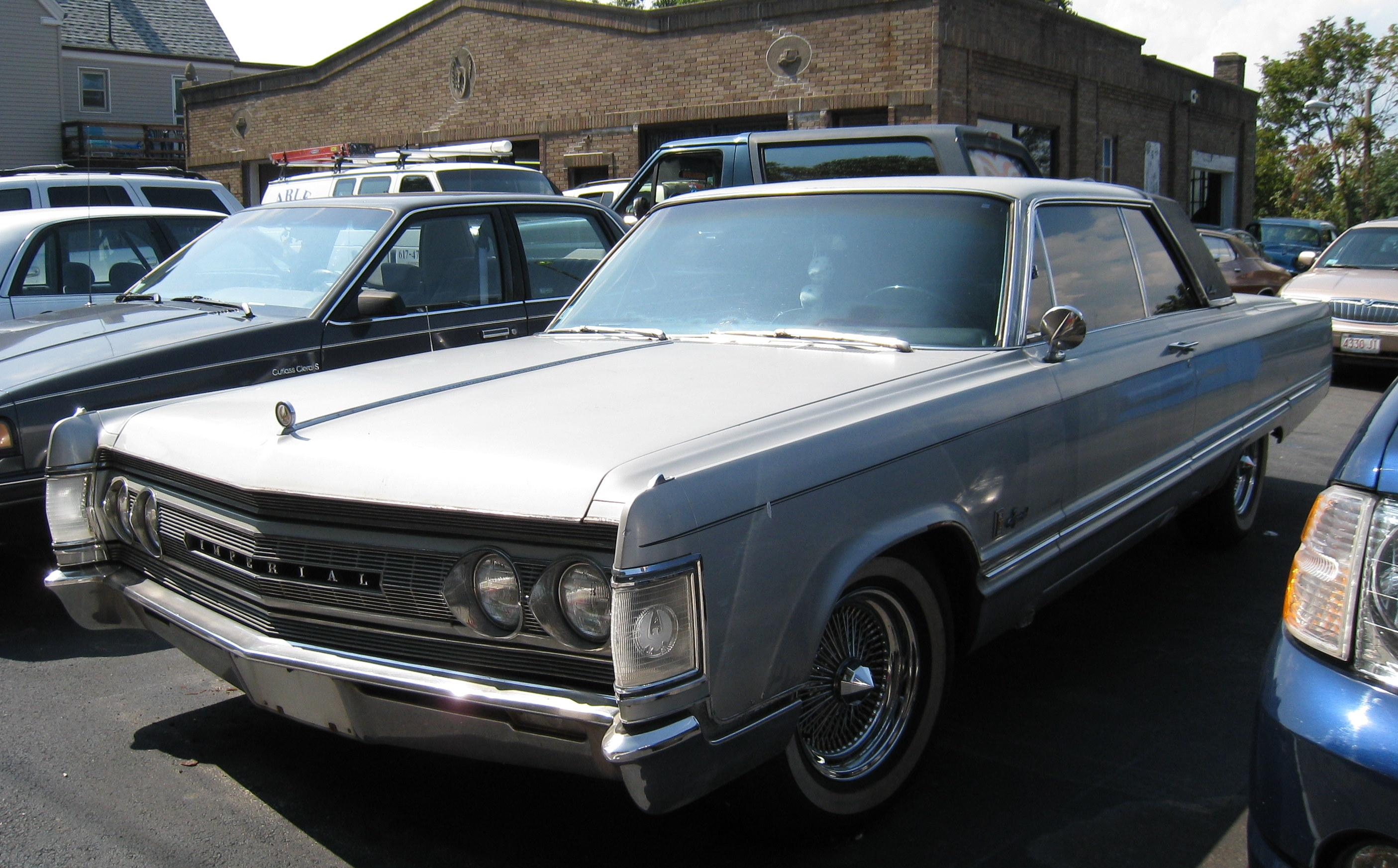 1967 Imperial Crown Coupe